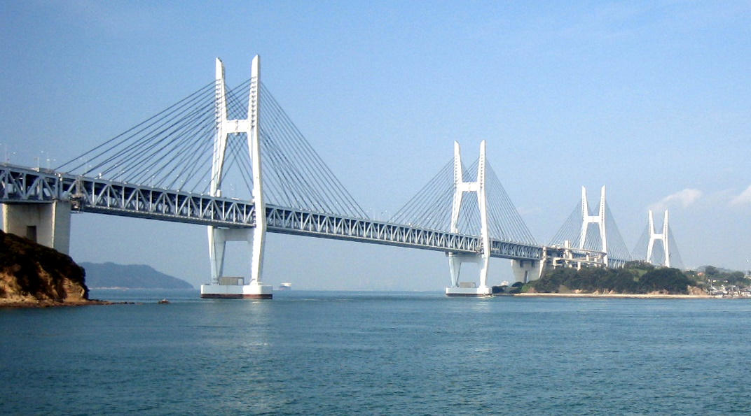 modified version of image found at Japanese Wikipedia here. It appears that it was photographed and uploaded by User:NORITO S and was tagged GFDL. For this version, the image was rotated, exposure adusted and cropped.